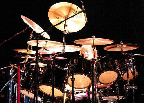 Ben Clapp performing at Penn's Peak, Jim Thorpe, PA